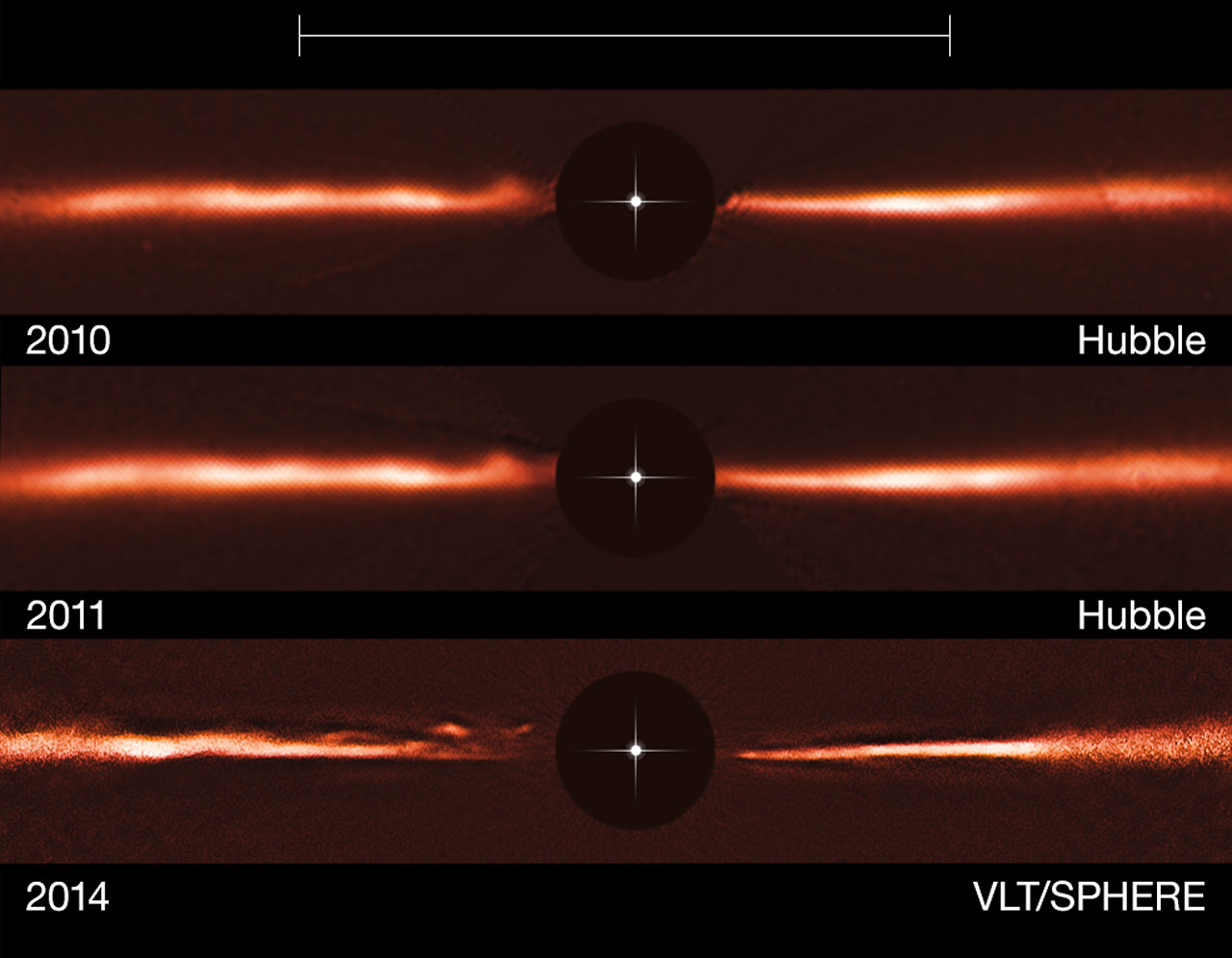 Using images from ESO’s Very Large Telescope and the NASA/ESA Hubble Space Telescope, astronomers have discovered fast-moving wave-like features in the dusty disc around the nearby star AU Microscopii. These odd structures are unlike anything ever observed, or even predicted, before now. The top row shows a Hubble image of the AU Mic disc from 2010, the middle row Hubble from 2011 and the bottom row VLT/SPHERE data from 2014. The black central circles show where the brilliant light of the central star has been blocked off to reveal the much fainter disc, and the position of the star is indicated schematically. The scale bar at the top of the picture indicates the diameter of the orbit of the planet Neptune in the Solar System (60 AU). Note that the brightness of the outer parts of the disc has been artificially brightened to reveal the faint structure.